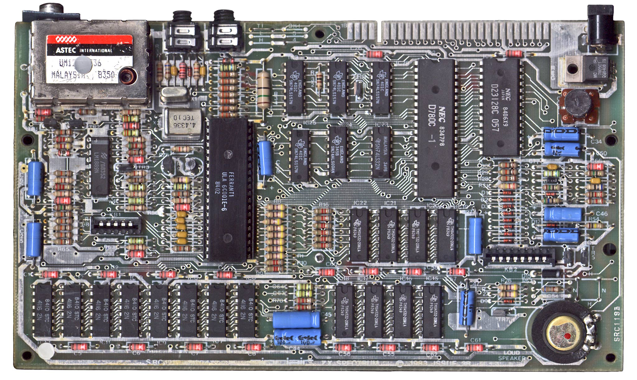 Sinclair 48K ZX Spectrum motherboard, Issue 3B. 1983, Manufactured 1984. (Heatsink removed to reveal detail in the upper right area.)